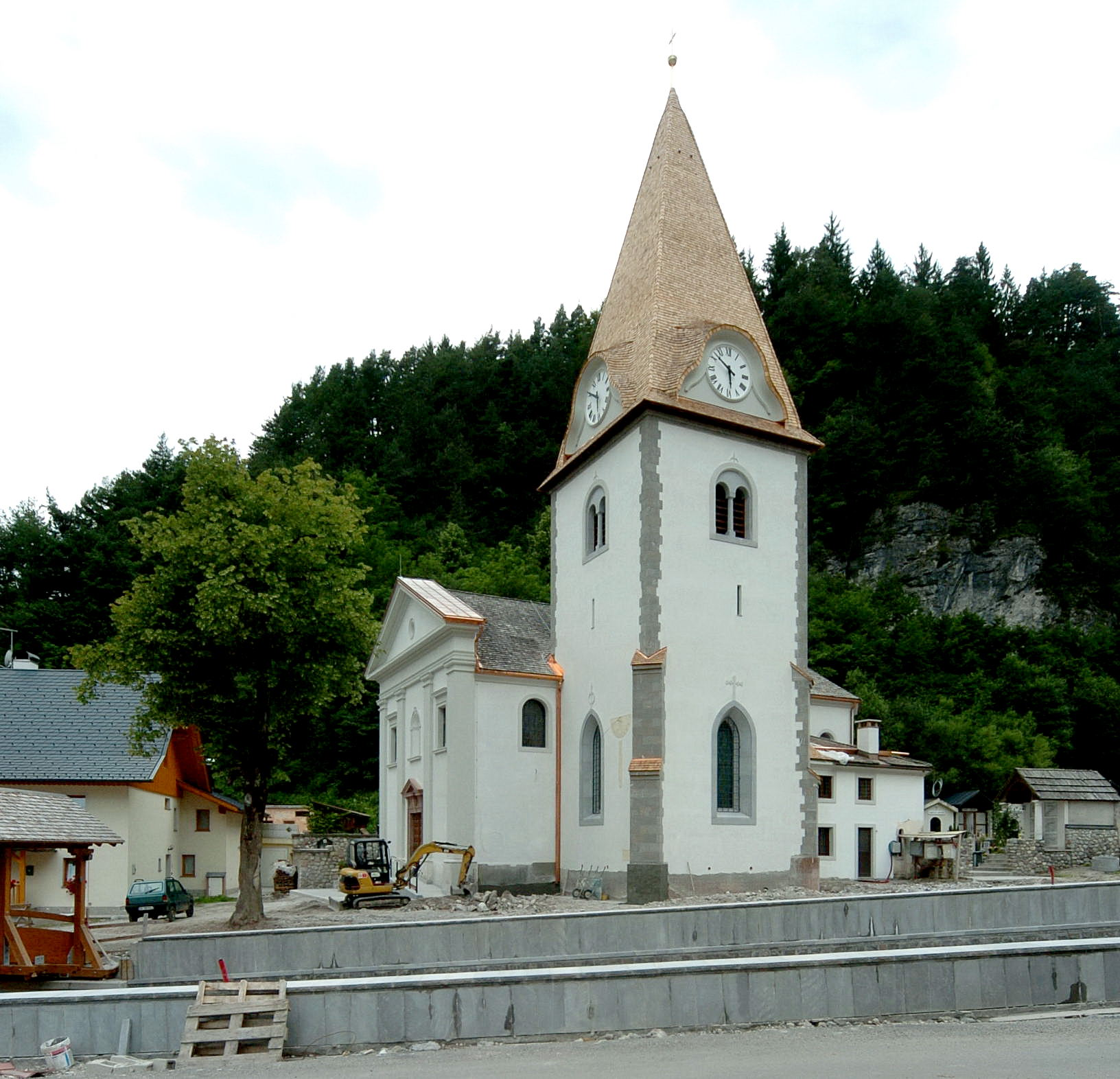 Reconstructed steeple at Ugovizza, community of Malborghetto Valbruna, province of Udine, region Friuli-Venezia Giulia, Italy